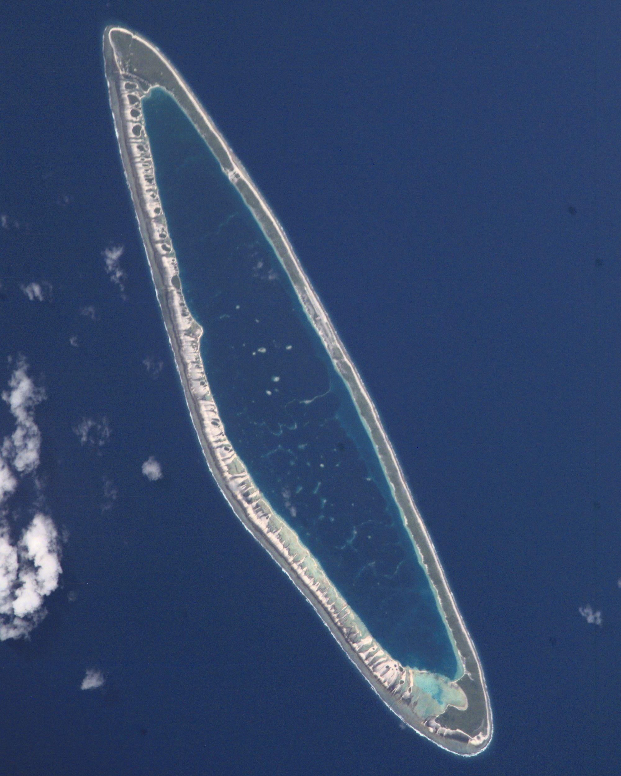 TUAMOTU ARCHIPELAGO/PUKARUHA I., AIRPORT